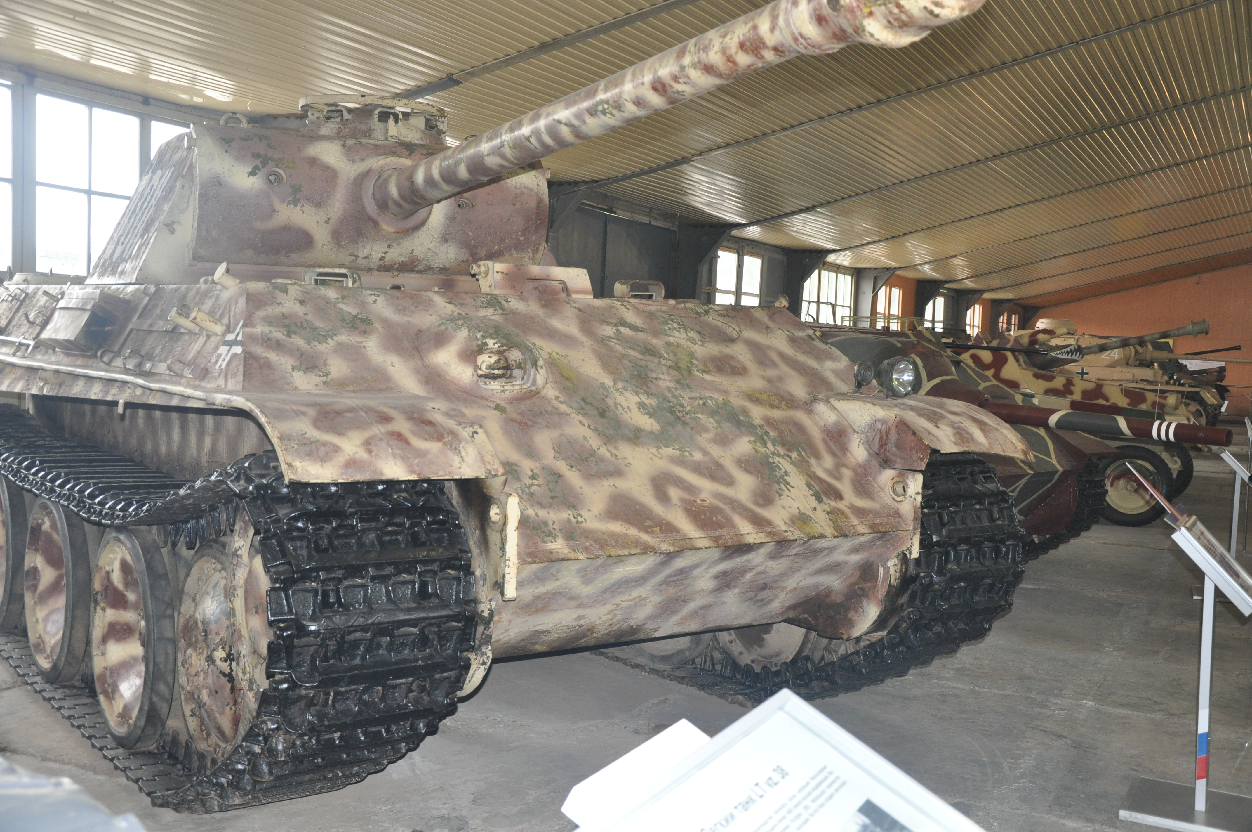 Panzerkampfwagen V Panther Tank in Kubinka